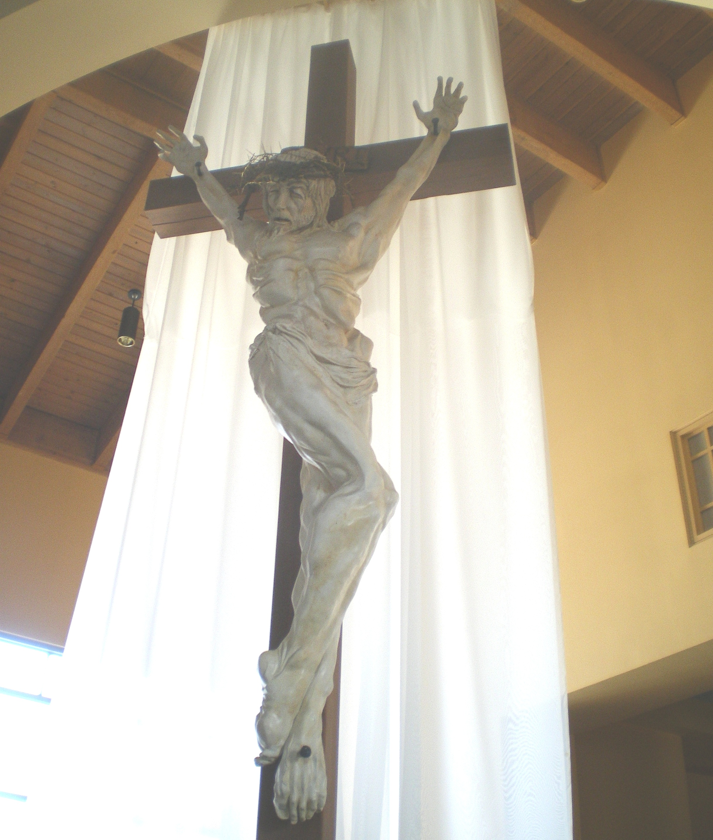 Crucifix at Padre Serra Church, Camarillo, California